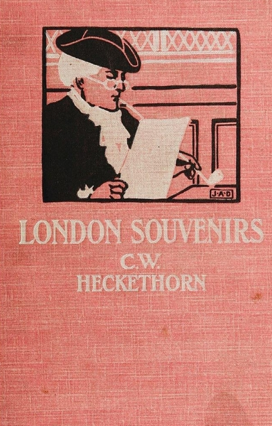 London souvenirs. Chatto & Windus, London, 1899.